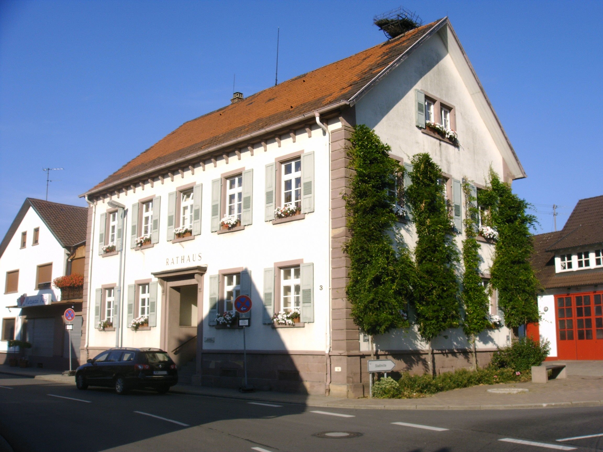 Town hall of Ottersdorf (part of Rastatt, Germany)